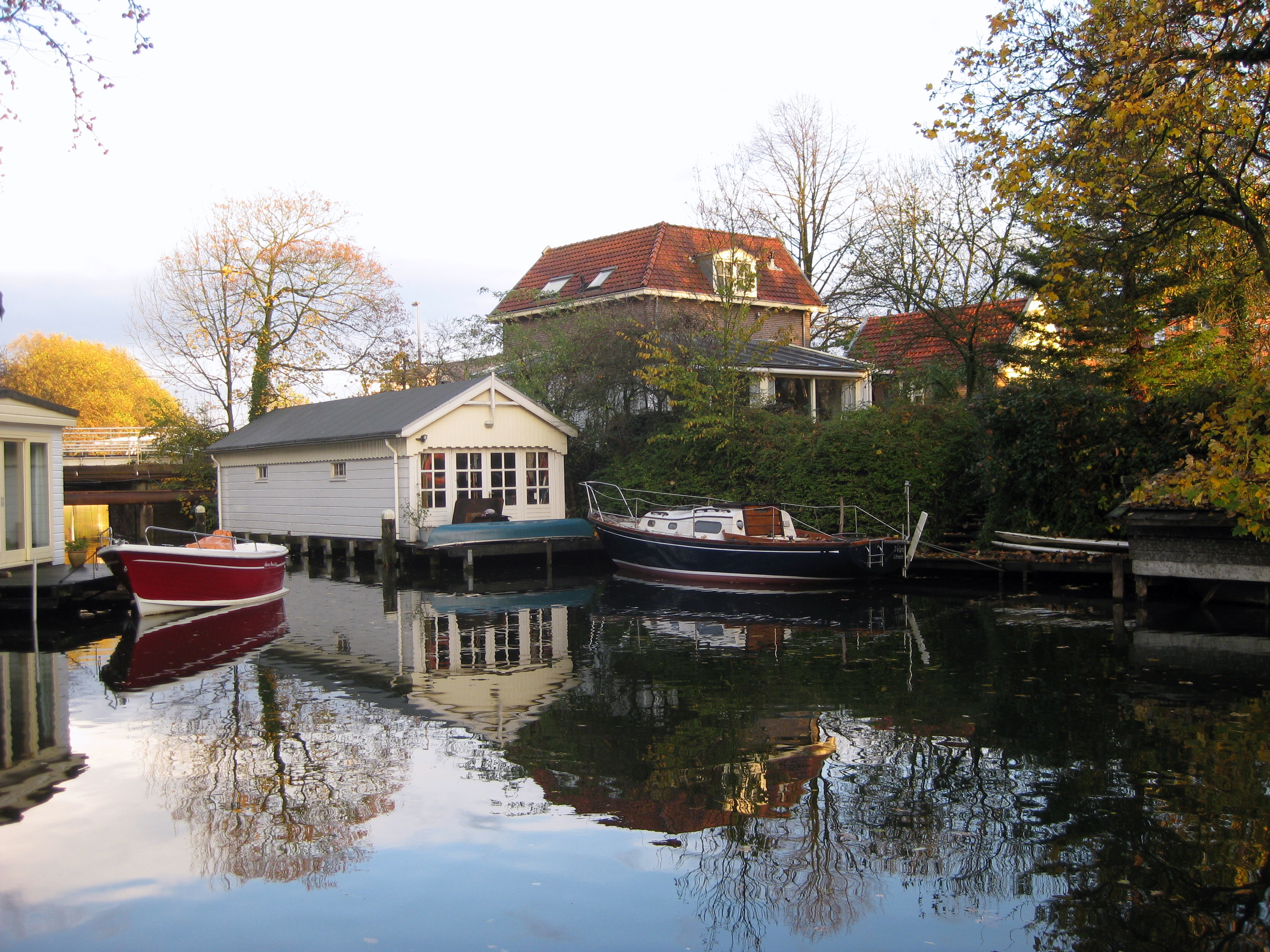 The Oude Rijn near Oog in Al, Utrecht